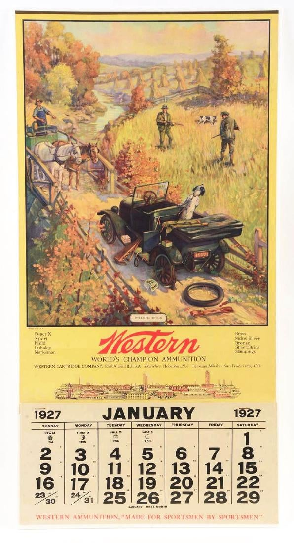 Humorous scene depicting hunters' car blocking a farmer and his wagon. Date painted on rear plate of the automobile.